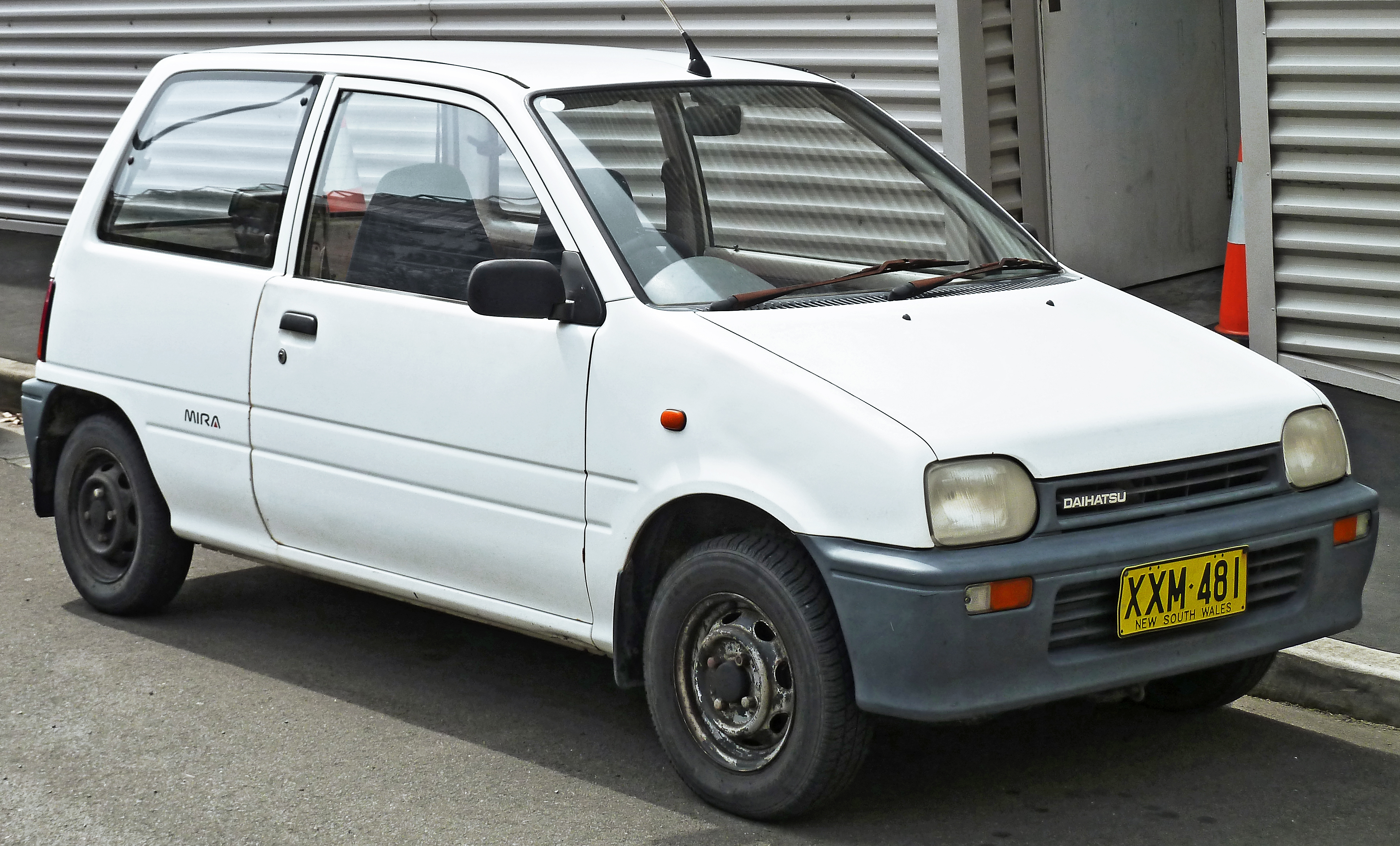 1991 Daihatsu Mira (L201) van. Photographed in Woolloomooloo, New South Wales, Australia.